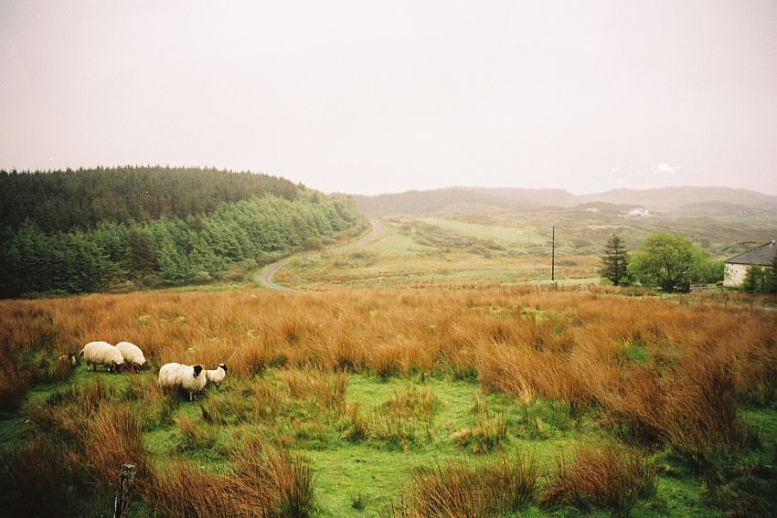 On the Scottish Island of Mull